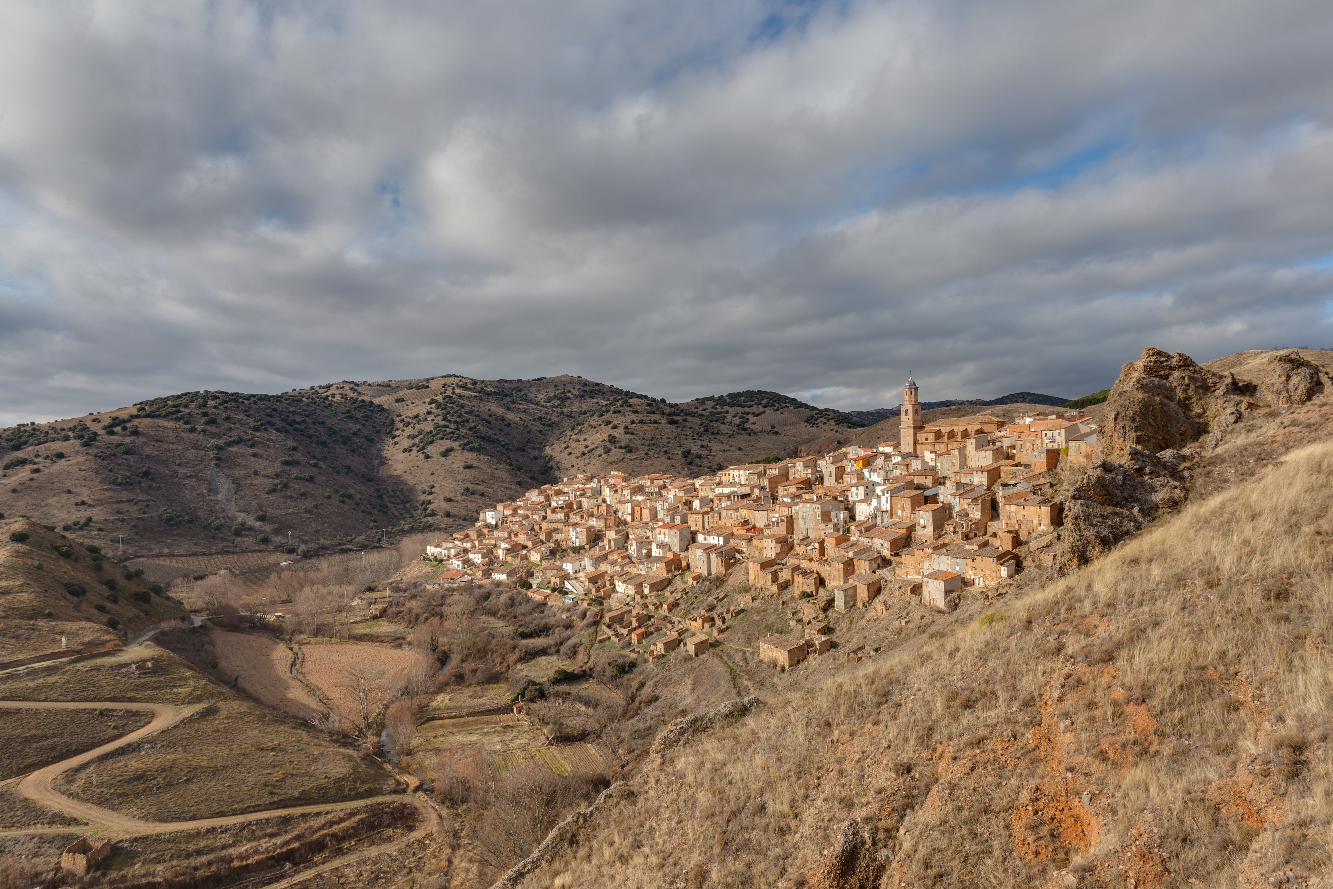 View of Moros, Zaragoza, Spain